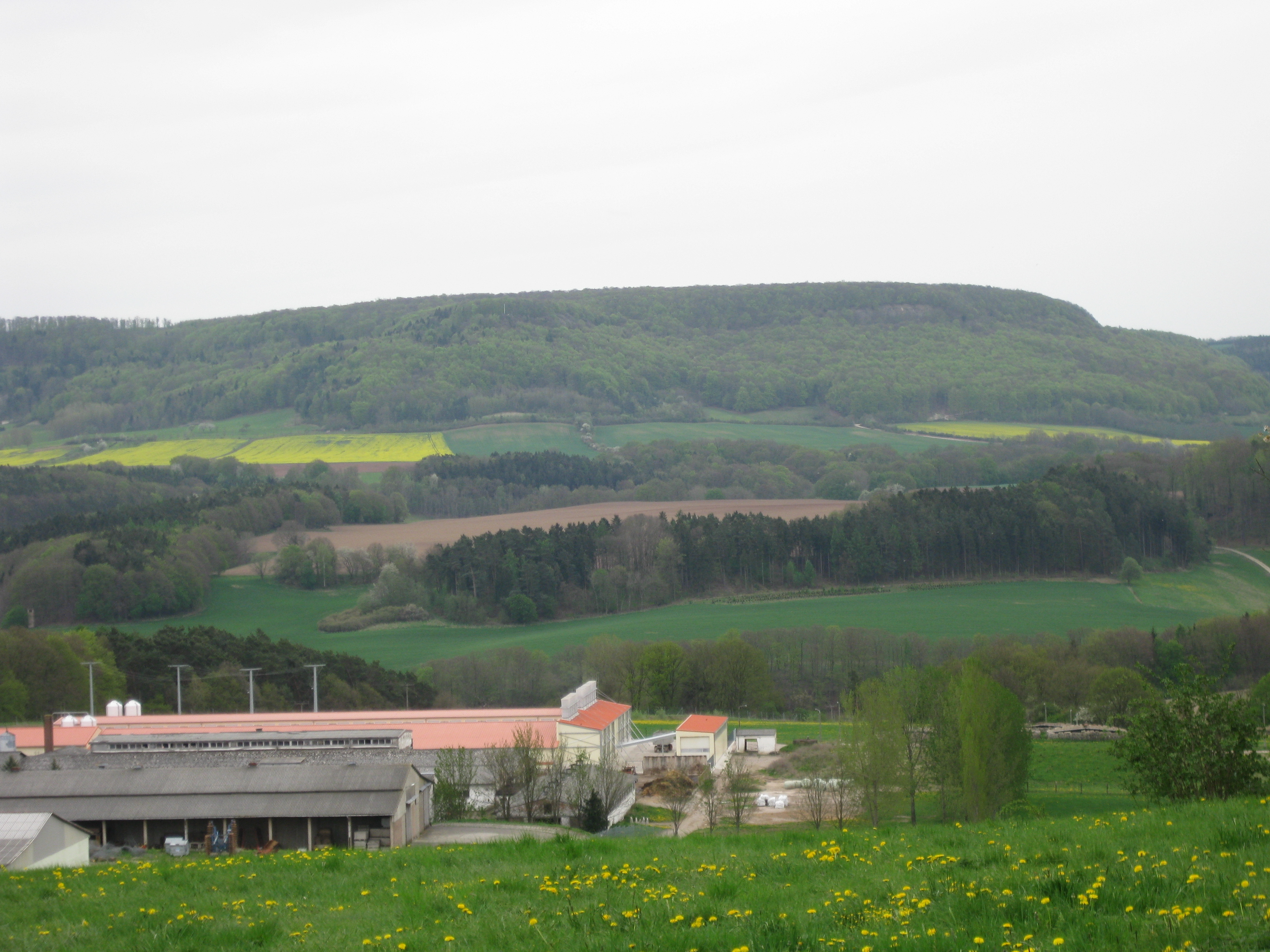 Röhringsberg